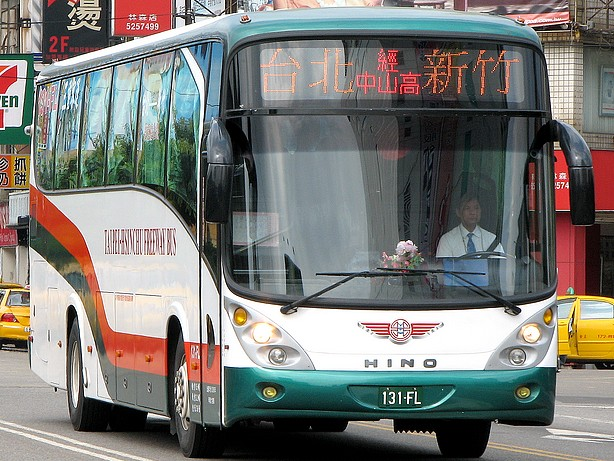 Sanchung Bus Co., Ltd. operated freeway line "Taipei - Hsinchu" bus with HINO LRM2PSA.中文（台灣）: 三重客運最新版「台北-新竹」國道客運用車。131FL的車體為HINO LRM2PSA結構。